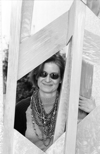 Photograph of Carla Penz at John T. Scott's Spirit Gate